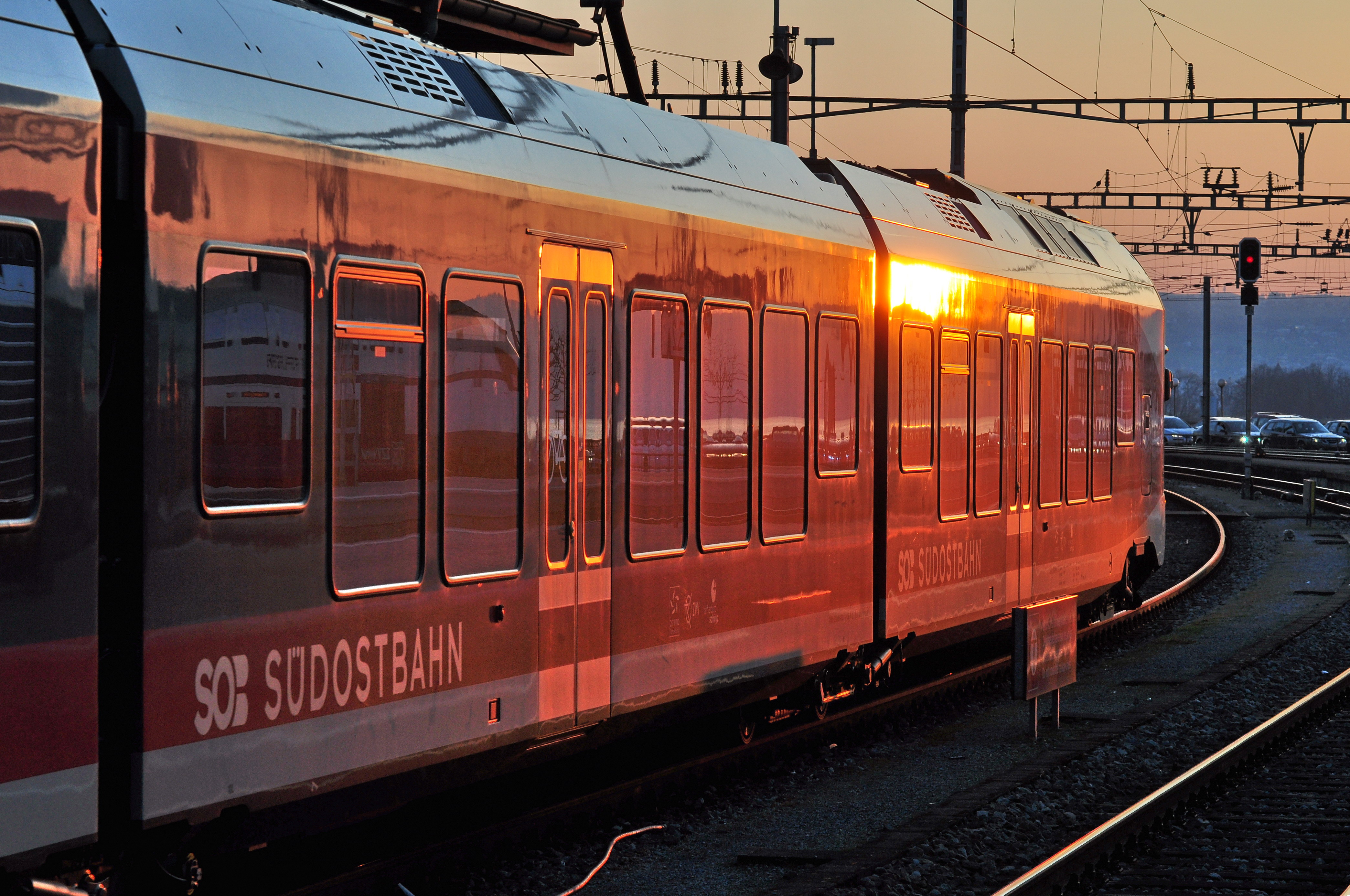 Südostbahn at sunset in the train station in Rapperswil (Switzerland), Seedamm in the background.